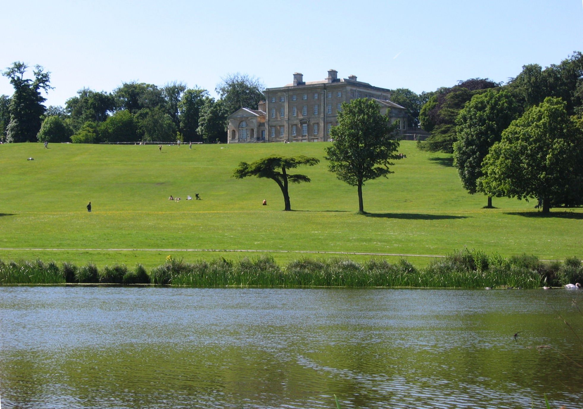 View of Cusworth Hall from the gardens